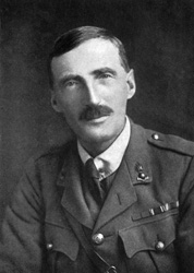 Lt Col Edwin Richardson